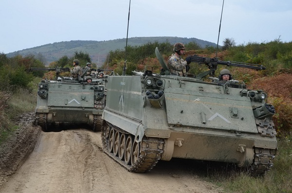 free of use